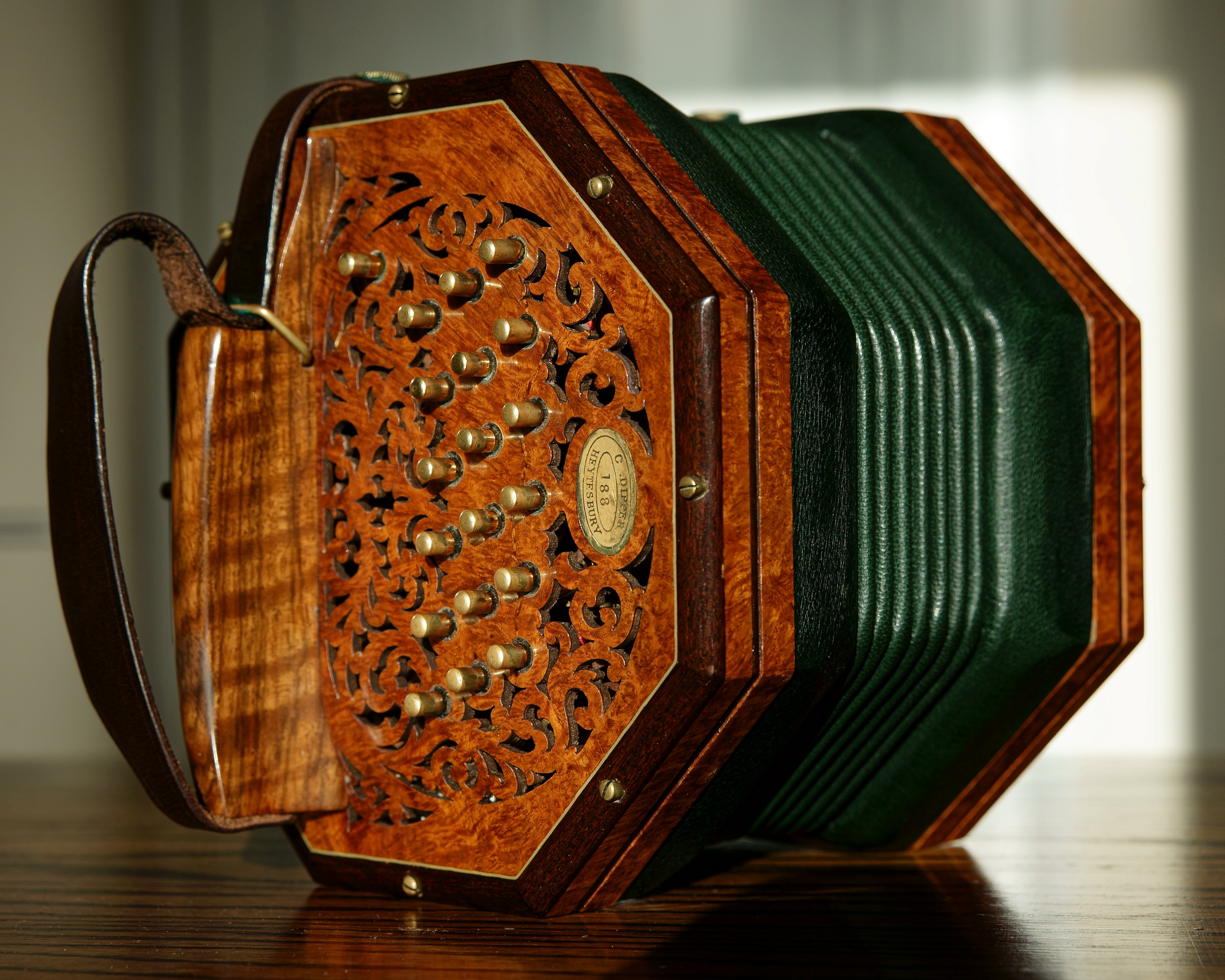 Anglo concertina, 37 key C/G dating from 1999, manufactured by Colin and Rosalie Dipper.